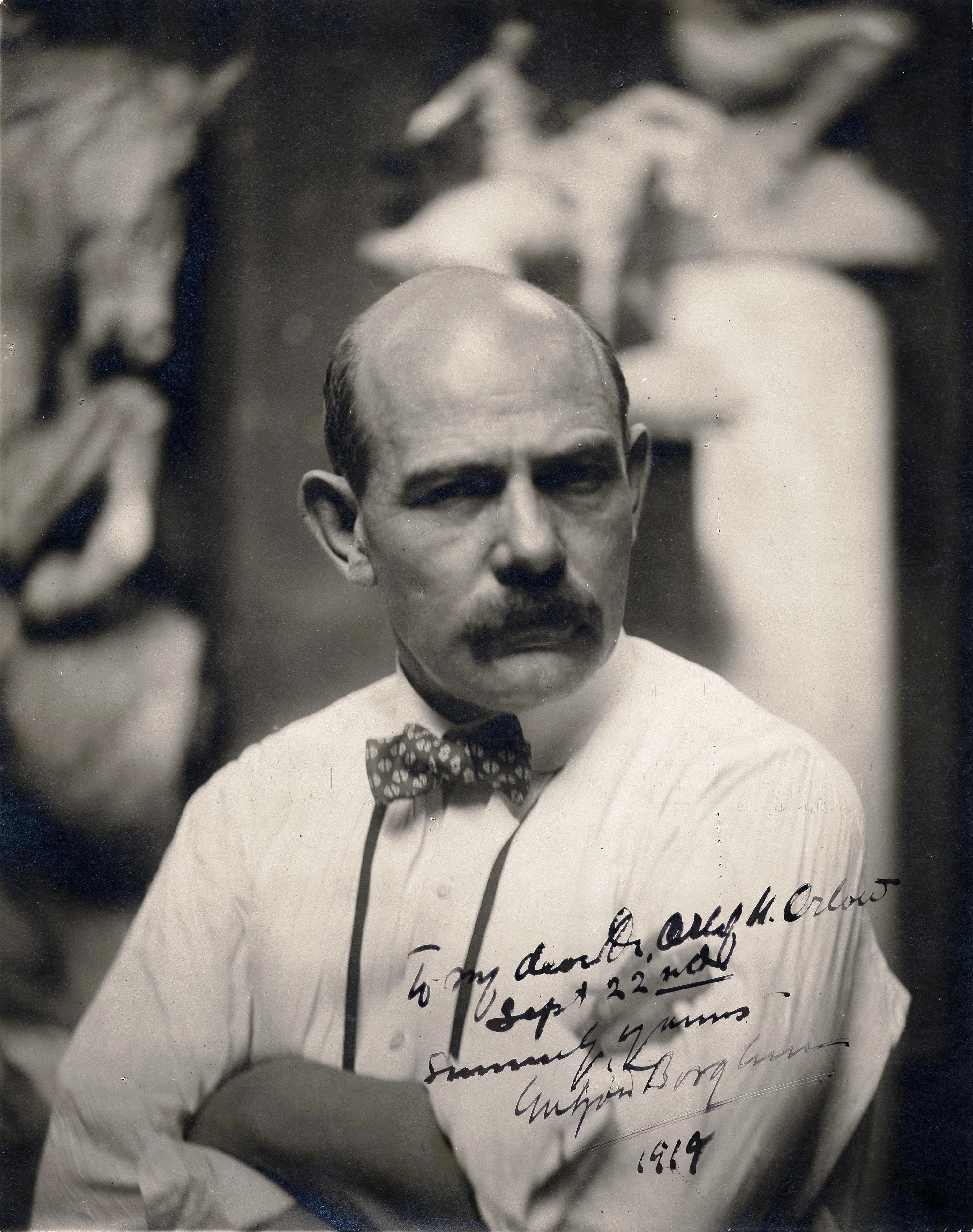 Inscription lower right: "To my dear Dr. Orlof M. Orlow Sept. 22nd - Sincerely Yours - Gutzon Borglum 1919". Published in: Archives of American Art Journal v. 27, no. 2, p. 15.